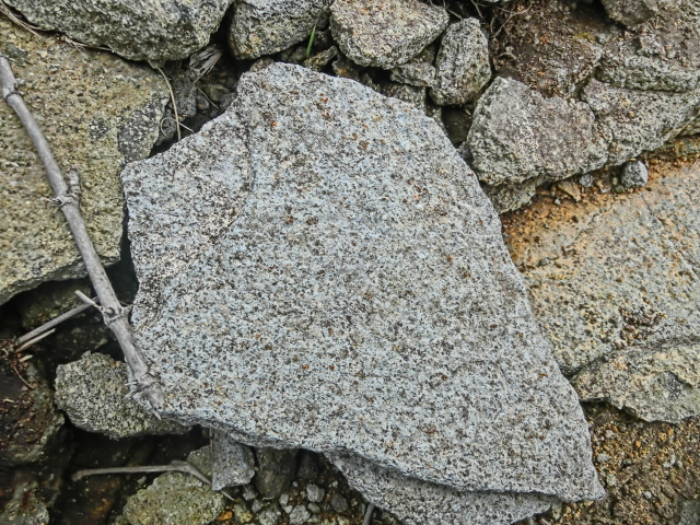 Teppei-stones distributed in Nagano prefecture